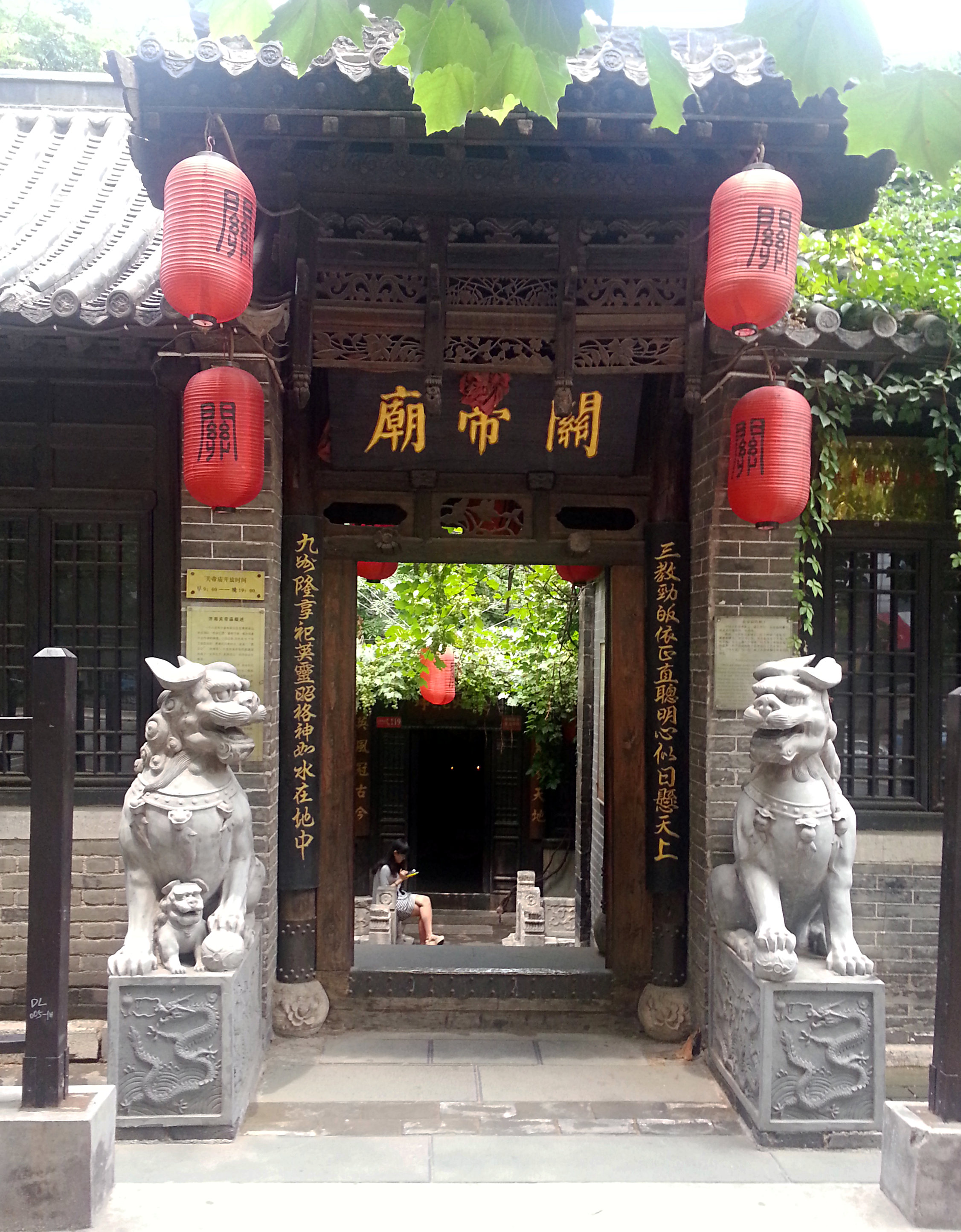 Photograph of the entrance to the Guandi Temple on Communist Youth League Street (Chinese: 共青团路关帝庙; pinyin: Gòngqīngtuán Lù Guāndì Miào) in the Tianqiao district of Jinan, Shandong Province, China.